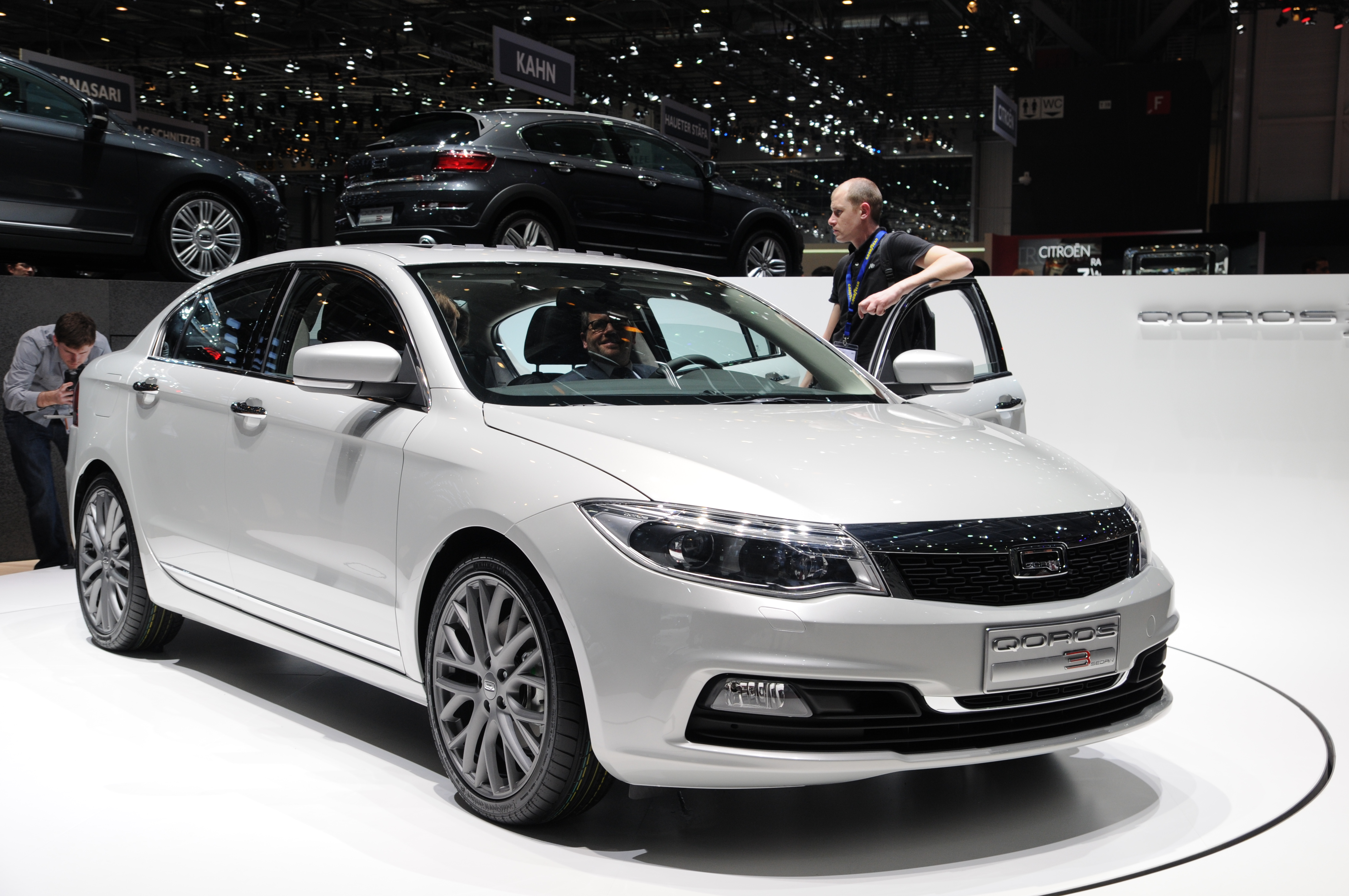 Geneva Motor Show 2013 (photos taken on the first press day)